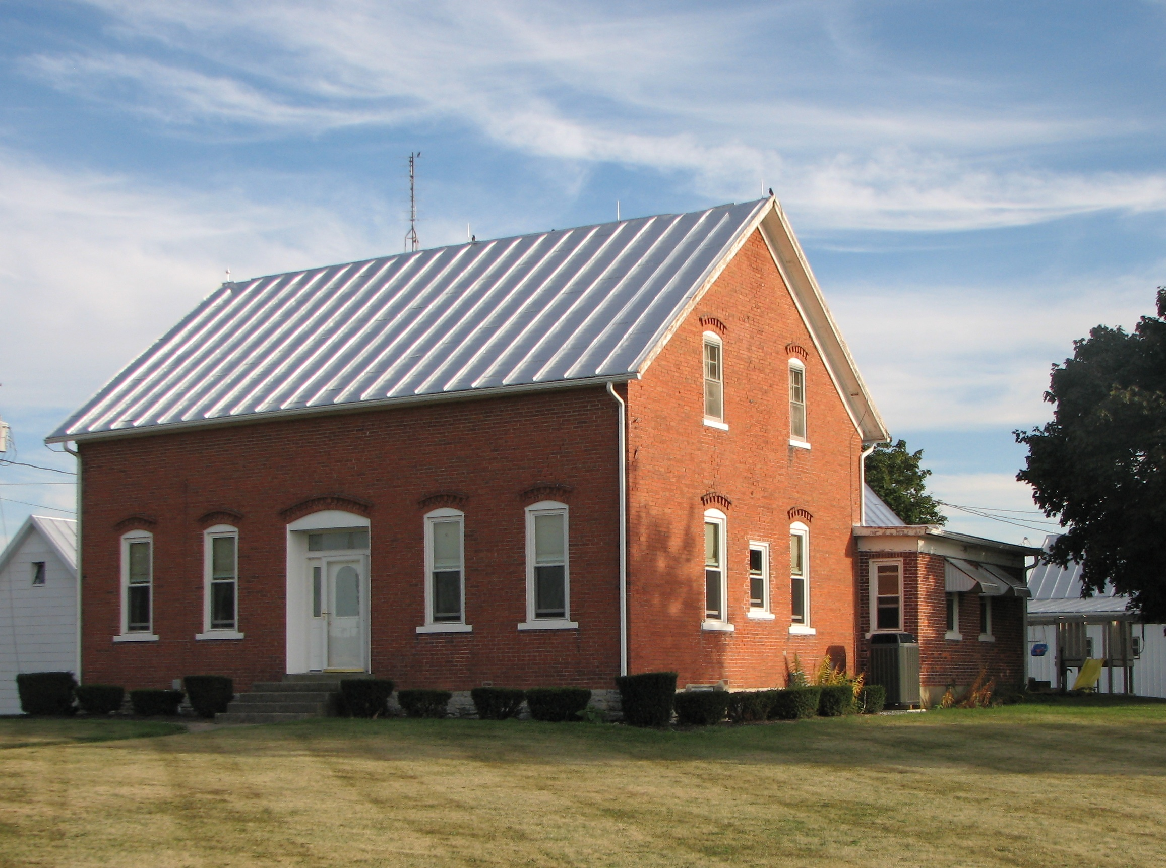 Typical 19th Century German Farm House in Maria Stein, OH on Minster-Ft Recovery Rd near intersection of Minster-Ft Recovery Rd and Mercer-Darke County Line Rd